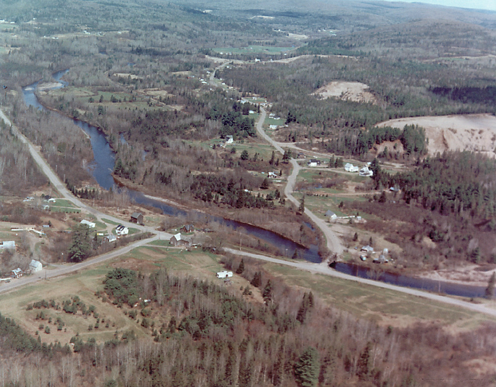 Aerial view of Zealand, New Brunswick in 1983